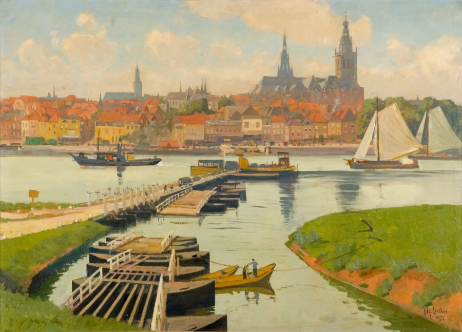 View of Nijmegen from Lent. Painting.